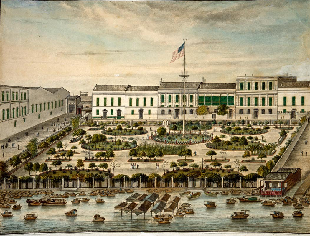 View of the American Garden, Canton, China, 1844–45.